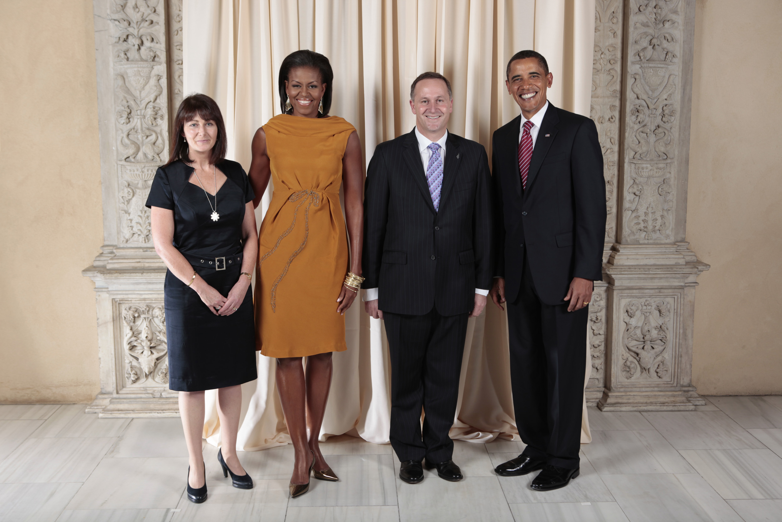 President Barack Obama and First Lady Michelle Obama pose for a photo during a reception at the Metropolitan Museum in New York with John Key, and his wife, Mrs. Bronagh Key.